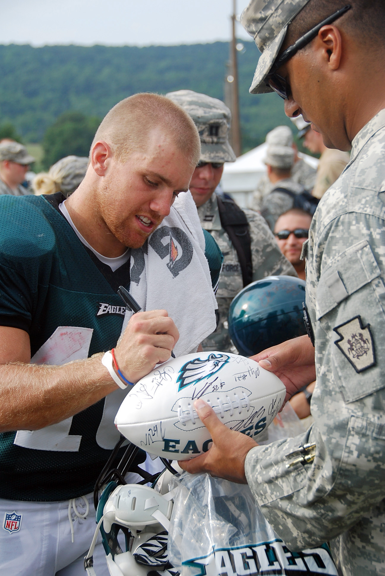 vPhiladelphia Eagles wide receiver Chad Hall signs an autograph for Sgt. 1st Class Manuel Roman after the Eagles training camp practice which was held at the Air Force Acadmey, Colo., Aug 1, 2012. Hall is a former Air Force Academy graduate. (U.S. Army photo/Capt. Antonia Greene)